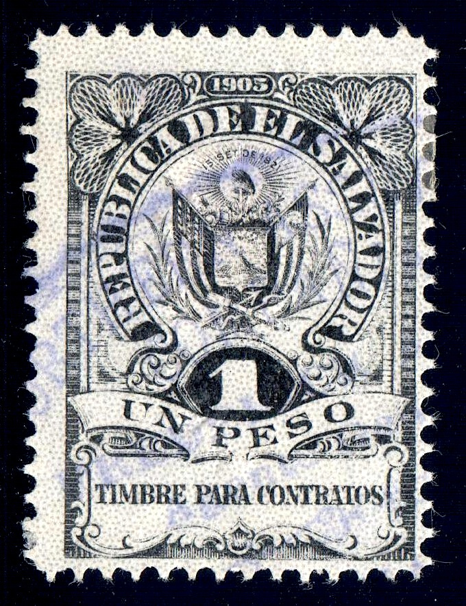 El Salvador 1906-07, 1 peso black revenue stamp, used. Contracts tax stamp. Catalogue: Forbin 197